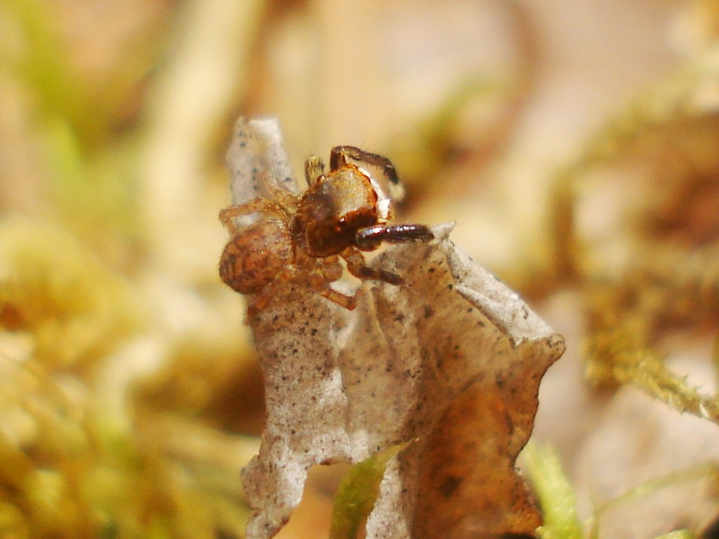 Euophrys frontalis